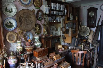 View of the exhibition of the Kolomyia Homeland Museum